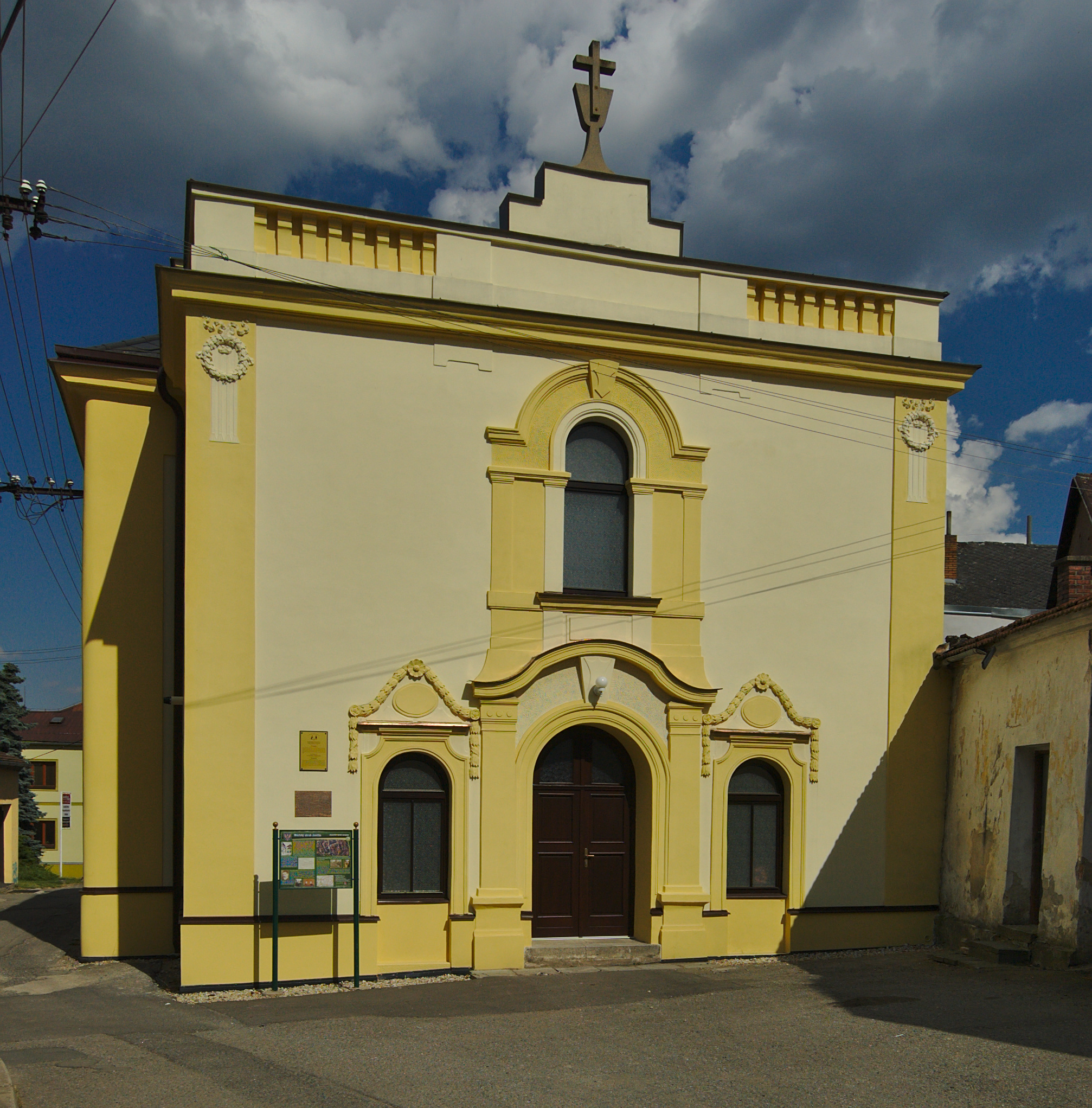 Jevíčko, Svitavy District, Czechia.